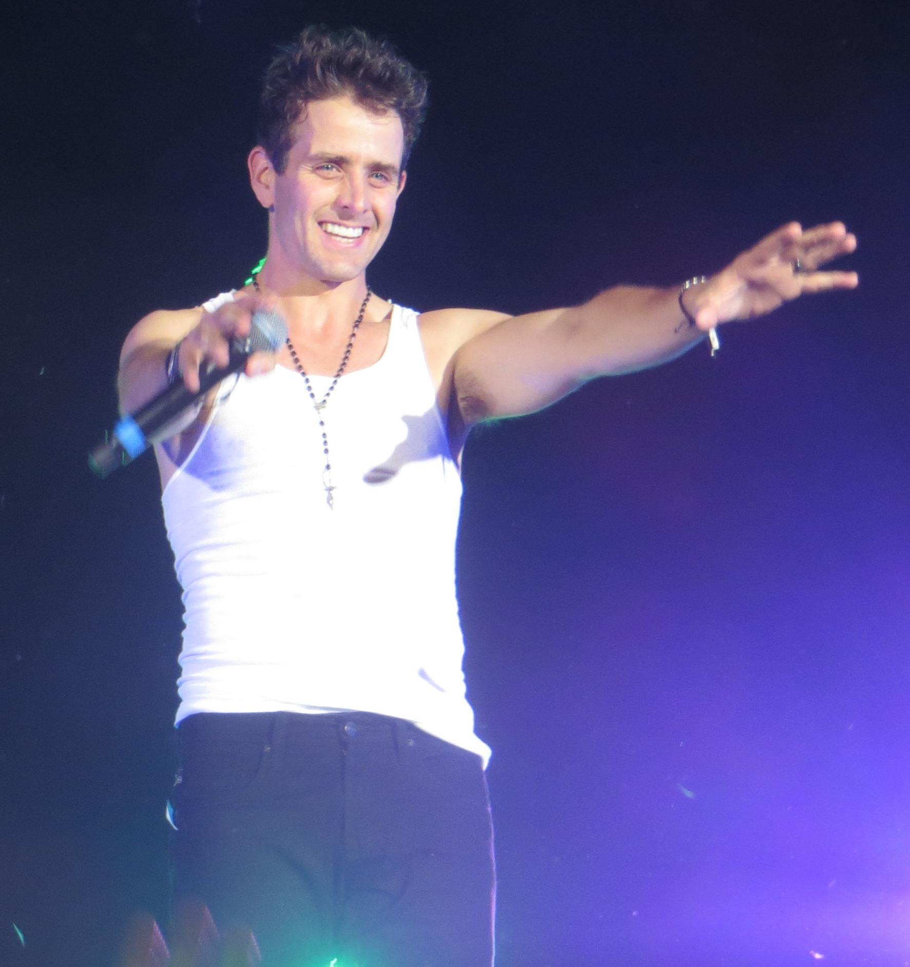 An Intimate Evening with New Kids On The Block – European Tour 2014